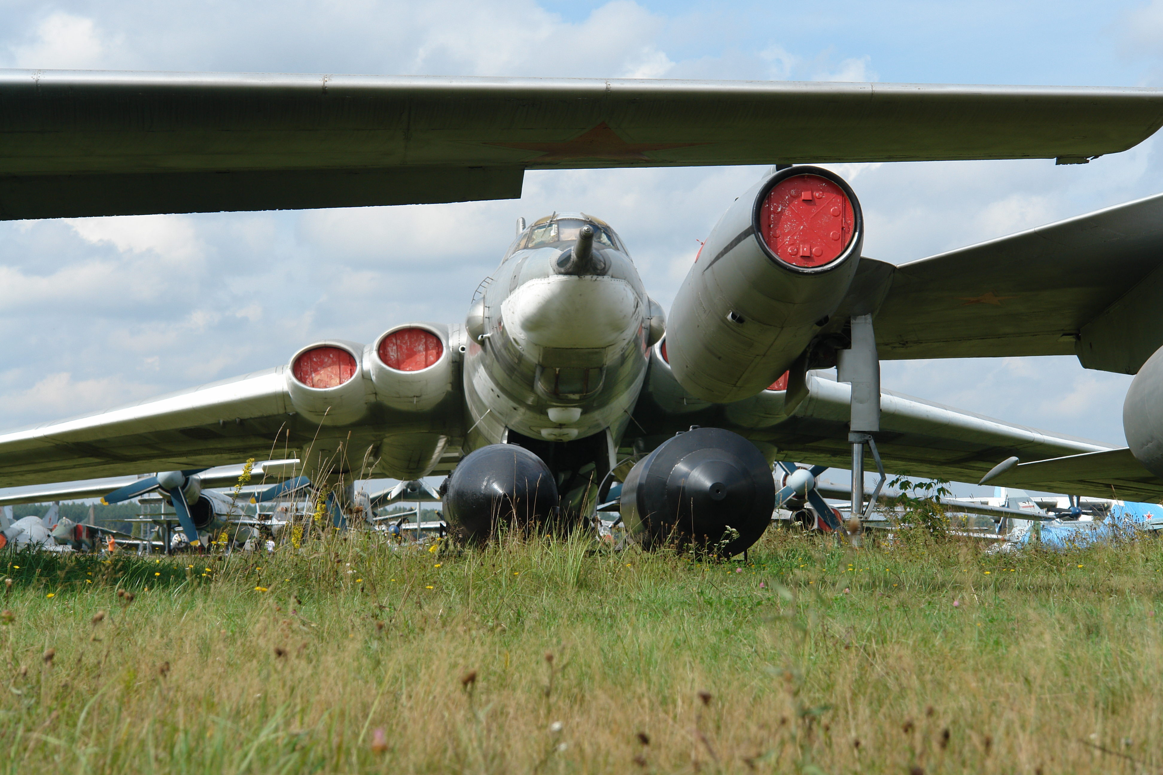 Myasischev 3M (Bison) at Monino Central Air Force Museum (Moscow).